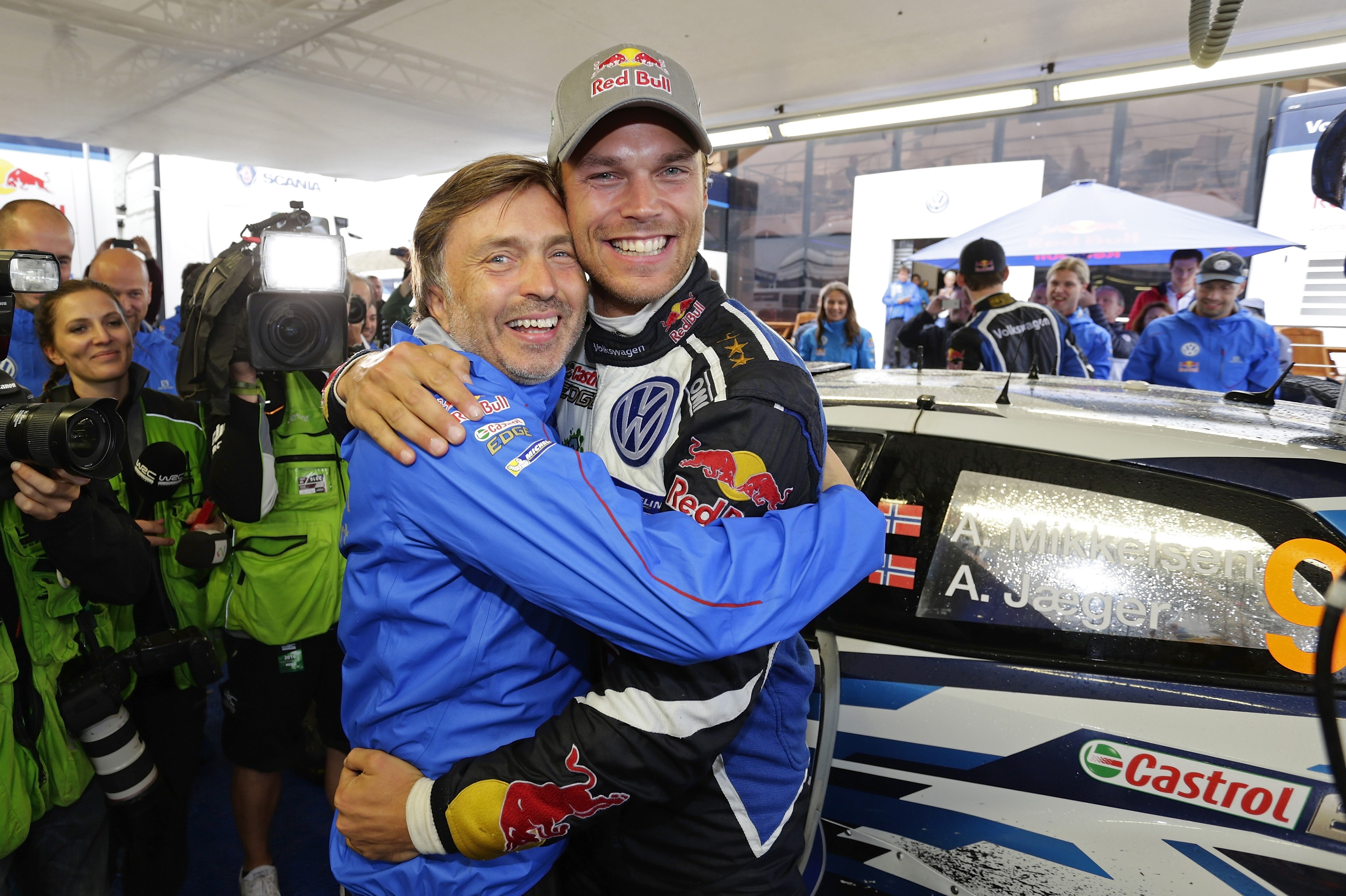 Andreas Mikkelsen and VW Motorsport team principal Jost Capito at the 2016 Rally Poland 2016.